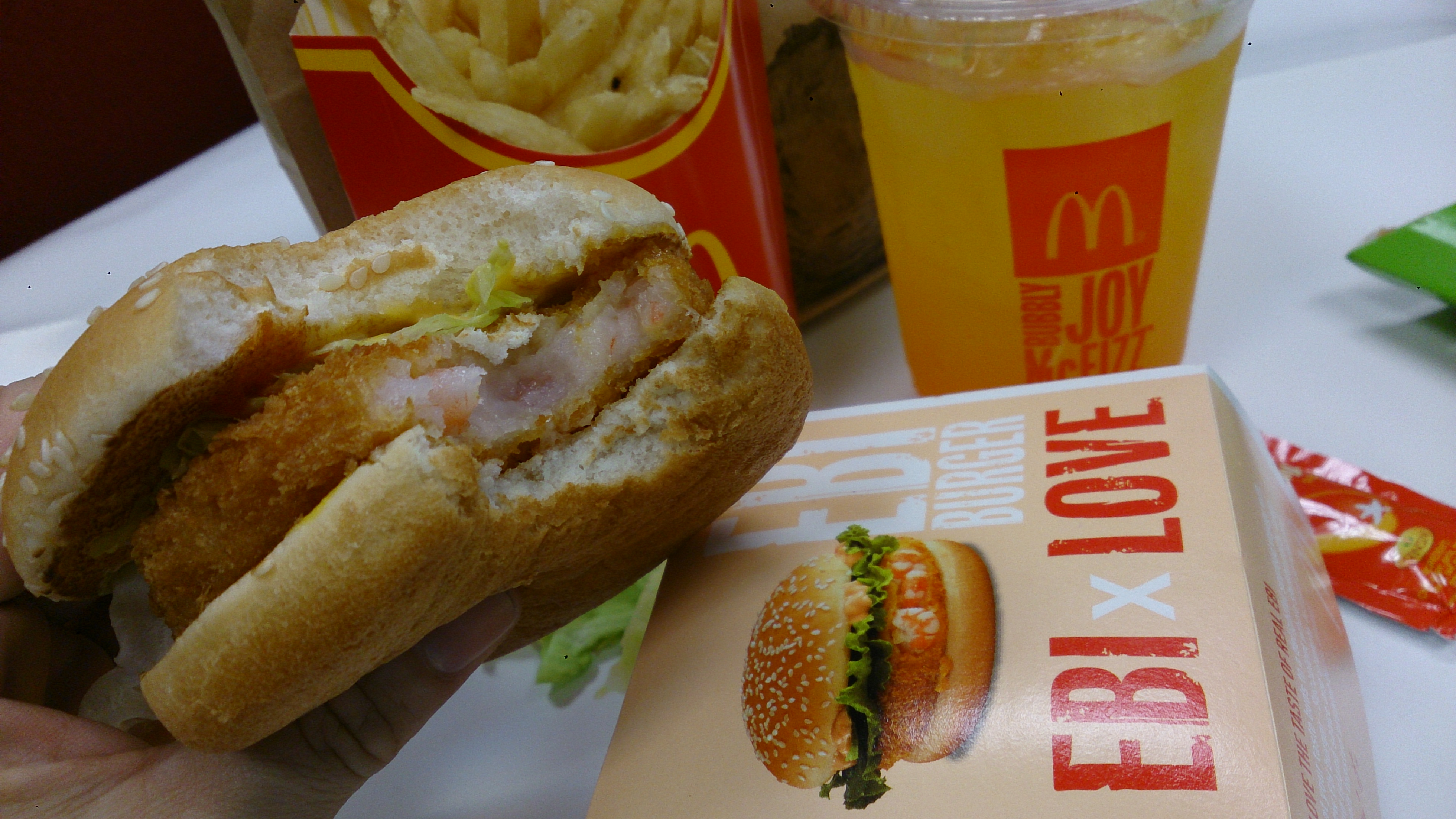 McDonald's ebi burger, sold in Singapore in November 2013